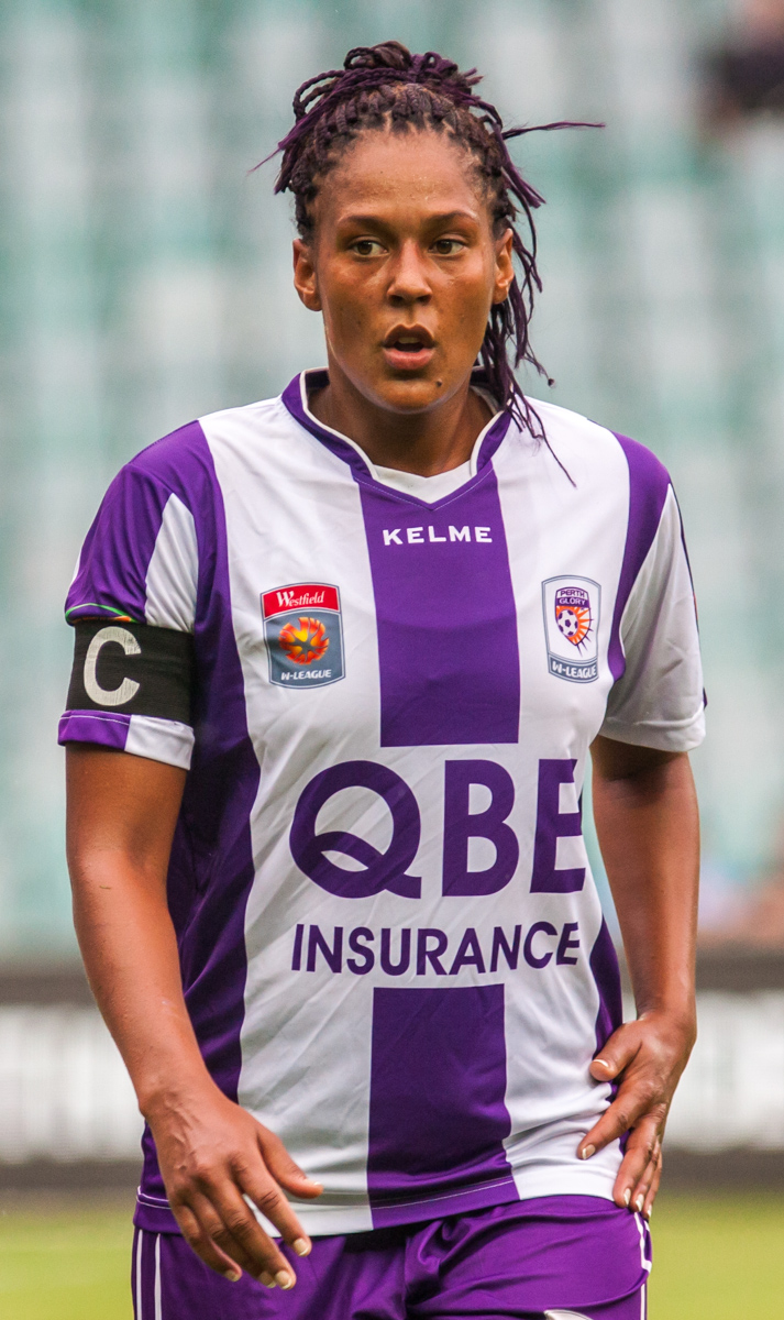 Sasha Andrews playing for Perth Glory FC in the 2012/13 W-League at the Sydney Football Stadium.